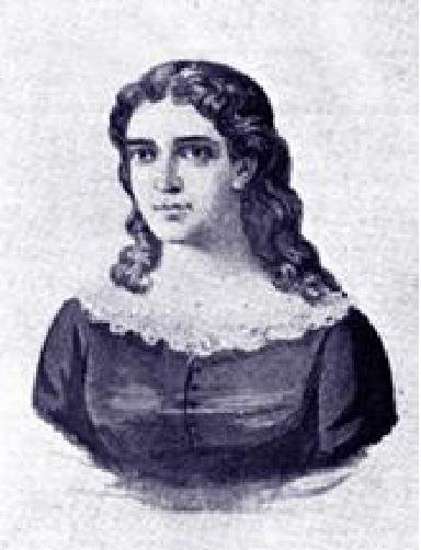 The blue canvas poet Dolores Galindo Veintimilla